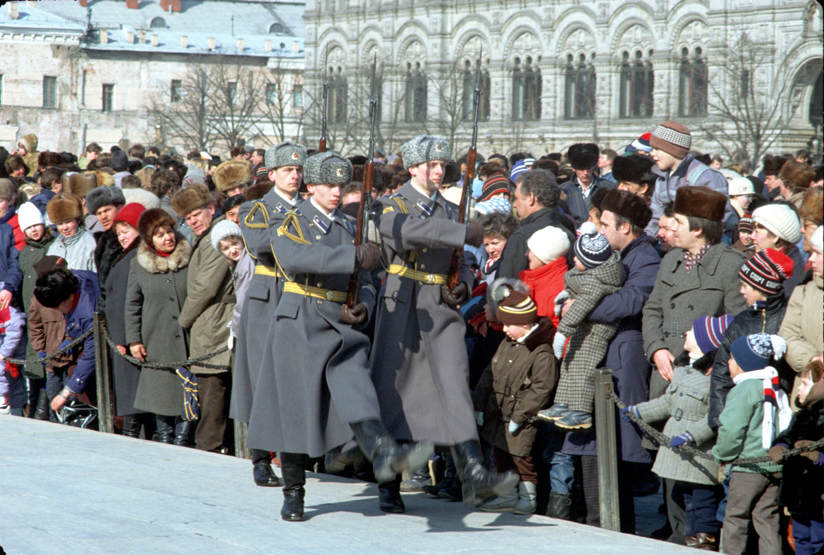 Red Square in Moscow, USSR, 1990.